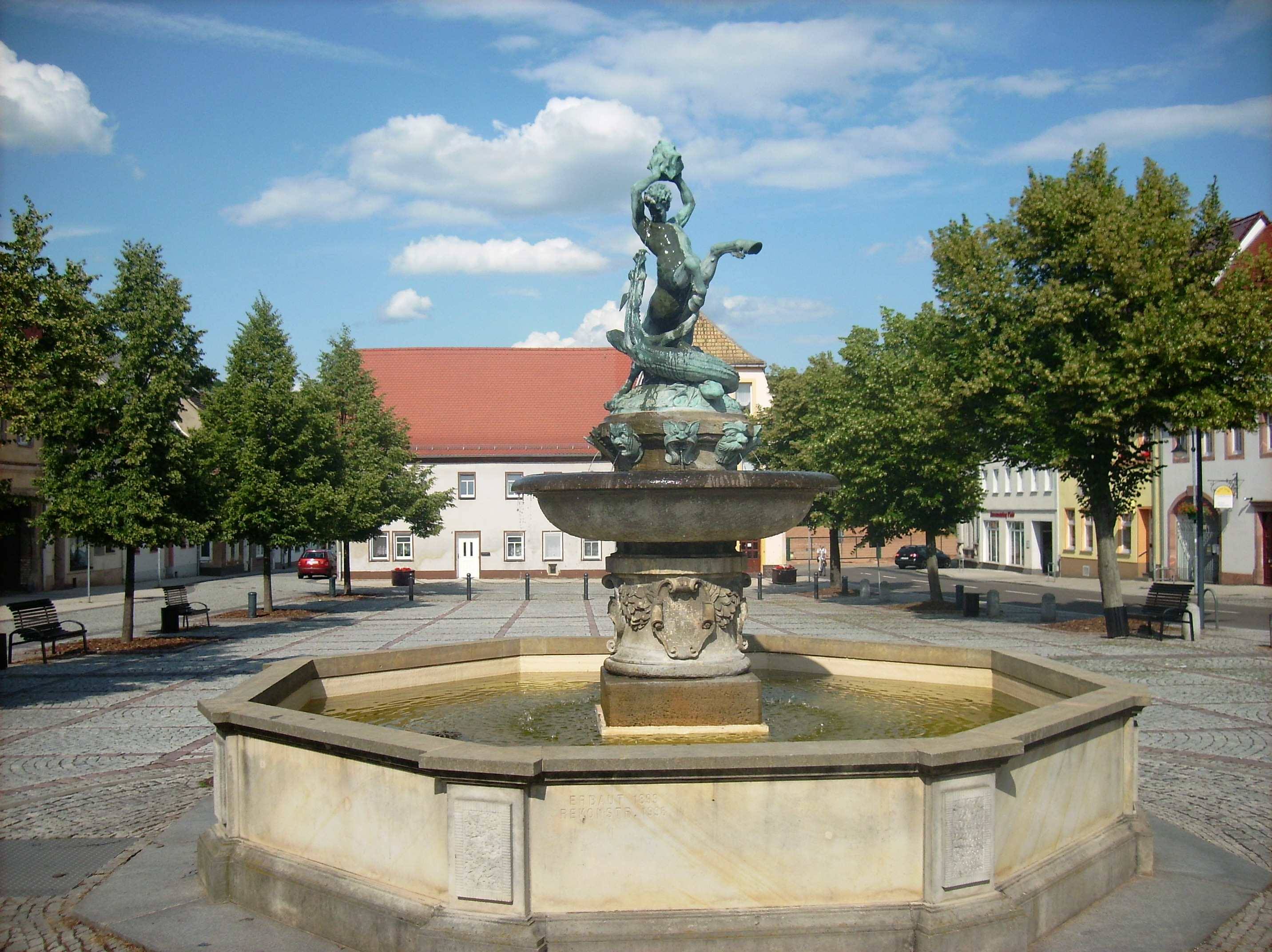 Centaur fountain in the market-square of Frohburg (Leipzig district, Saxony)